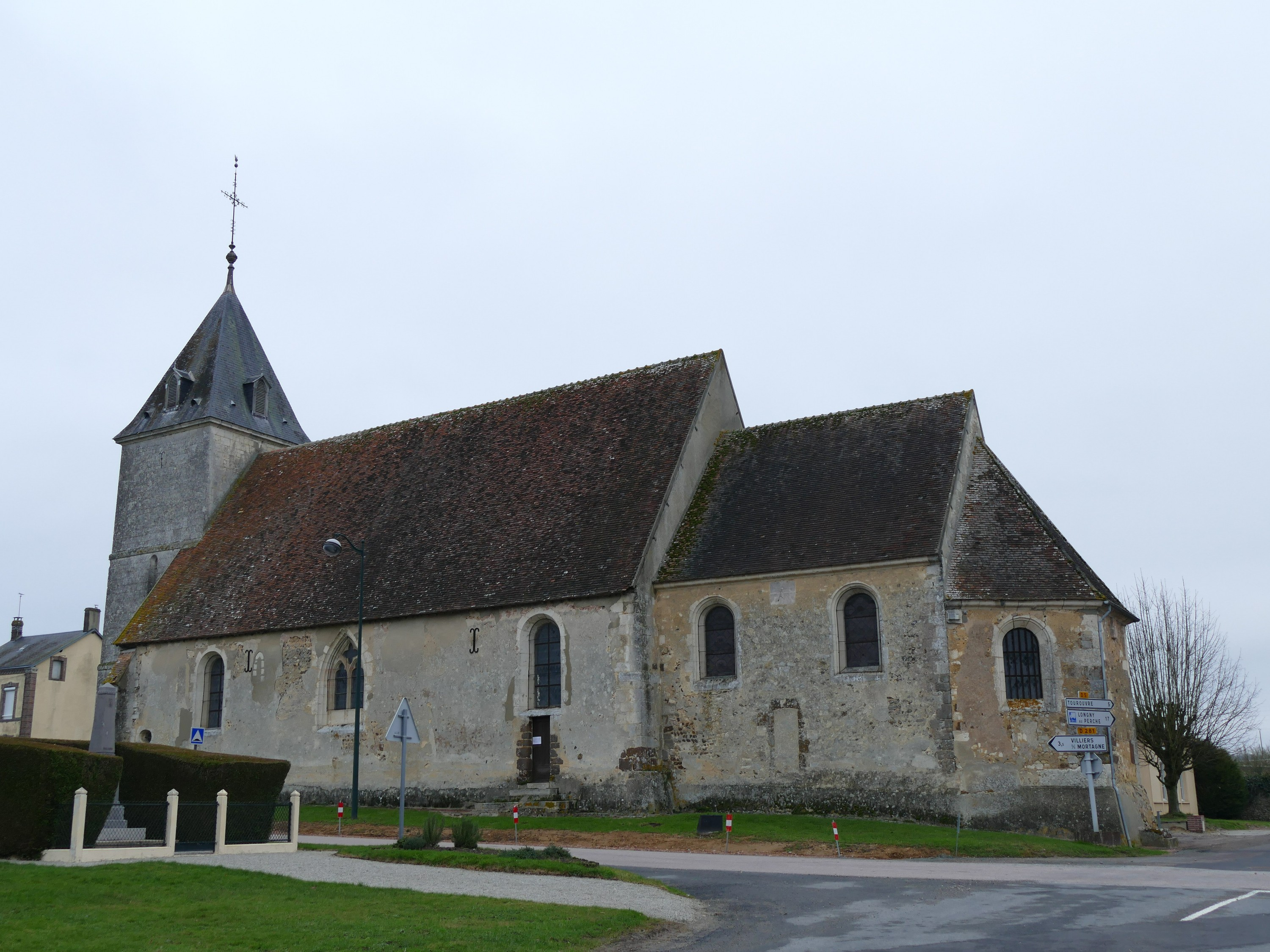 Saint-Gervais-and-Saint-Protais' church in Feings (Orne, Normandie, France).